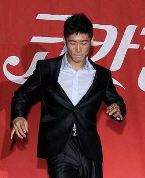 Yang Hak-Seon in February 2012